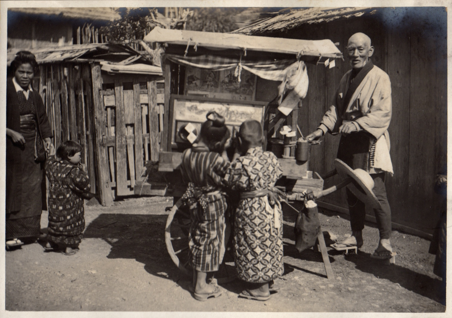 My spouse's uncle Elstner Hilton took this photo in Japan between 1914 and 1918. I am guessing this cart had small circular windows through which children could see a succession of images. I wonder whether they were illuminated by natural light, or whether there was a light source inside the cart.